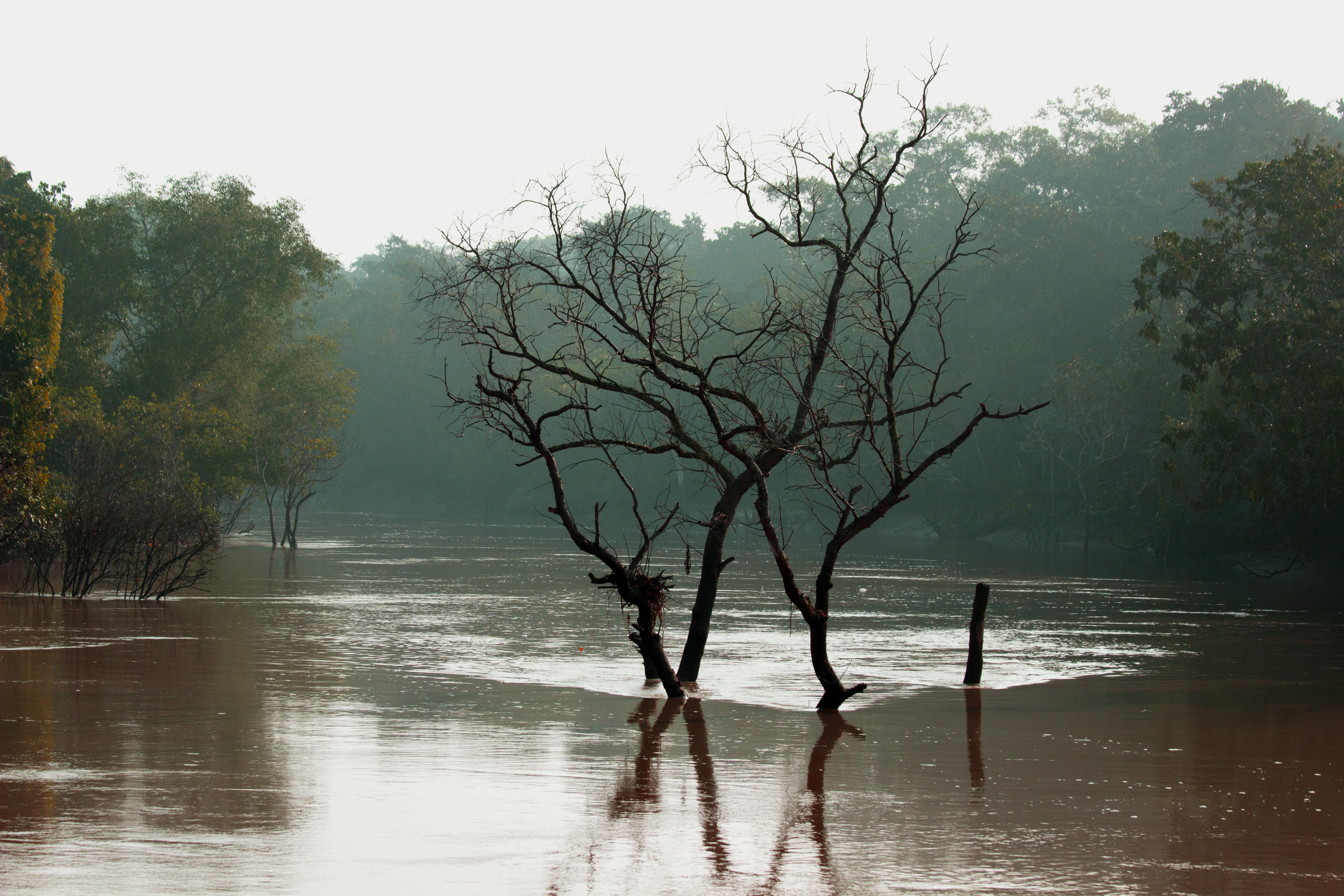 Bhitarkanika National Park